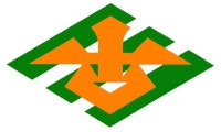 Kozagawa Wakayama chapter